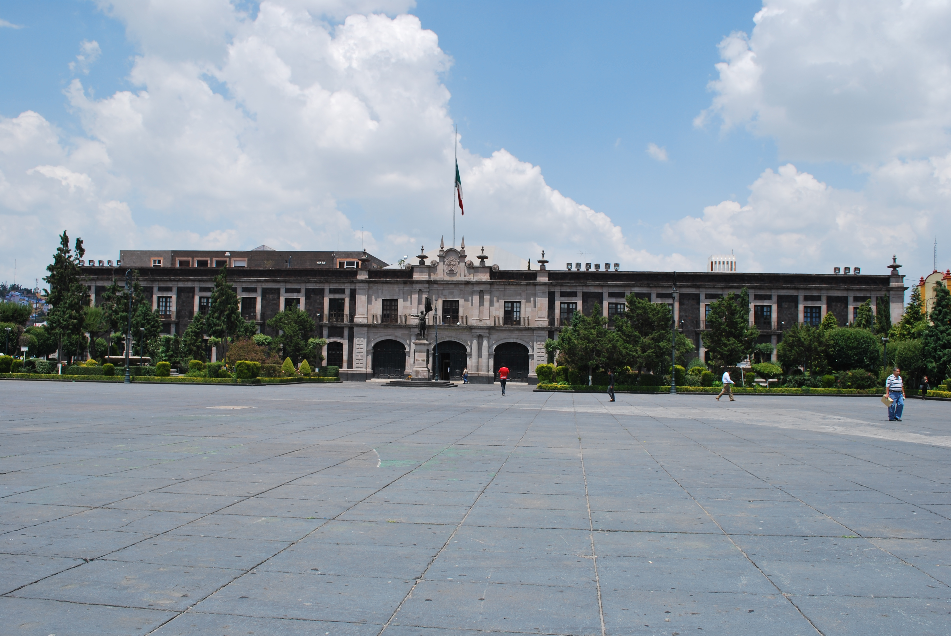 Legislative Chamber (Camara de Diputados) at the Plaza de los Martires in Toluca, Mexico State